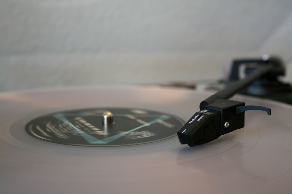 Turntable with Pink Floyds "Dark Side Of The Moon", transpararent vinyl edition playing.